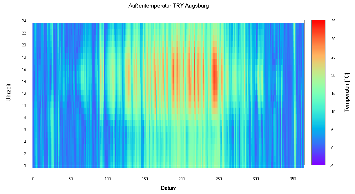 Carpet plot of the ambient-temperatur in Augsburg; generated from data of the Test Reference Year TRY with a VBA-macro and gnuplot